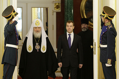 GRAND KREMLIN PALACE, MOSCOW. Before a reception in honour of senior clergy, who took part in the Russian Orthodox Church Local Council.